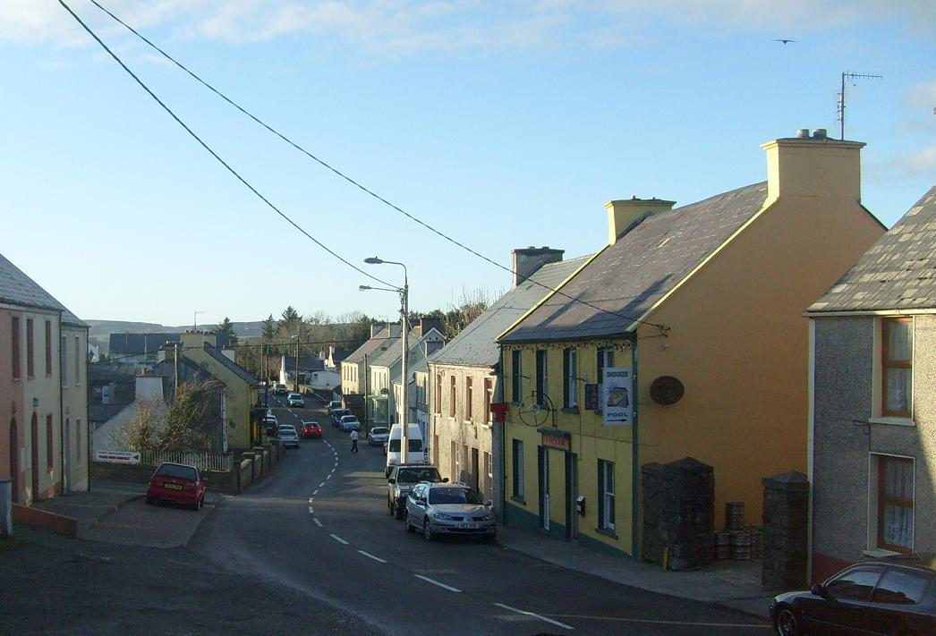 A cropped version of Ancraoslach.JPG